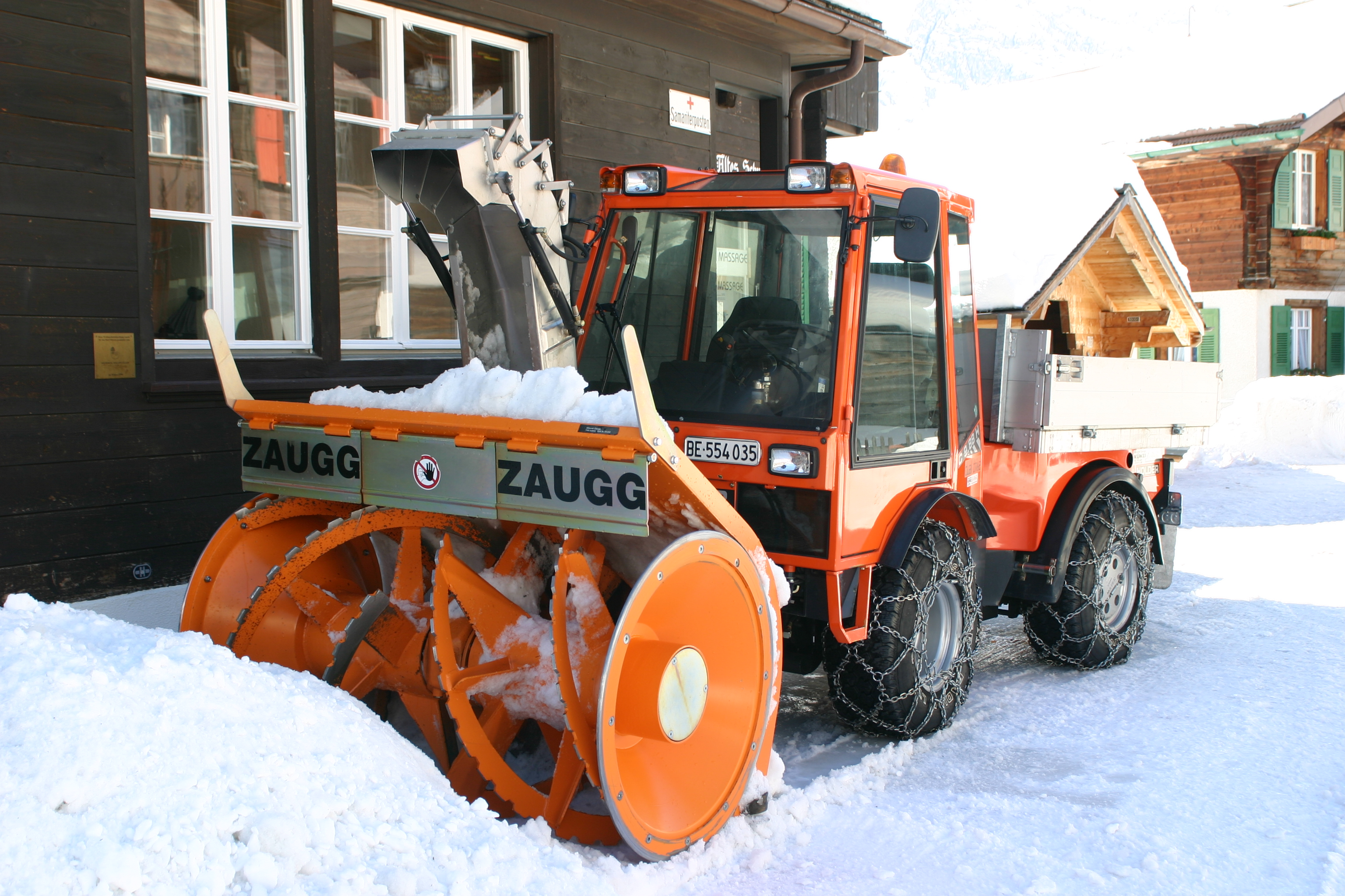 Photograph of a Zaugg front mounted snowblower